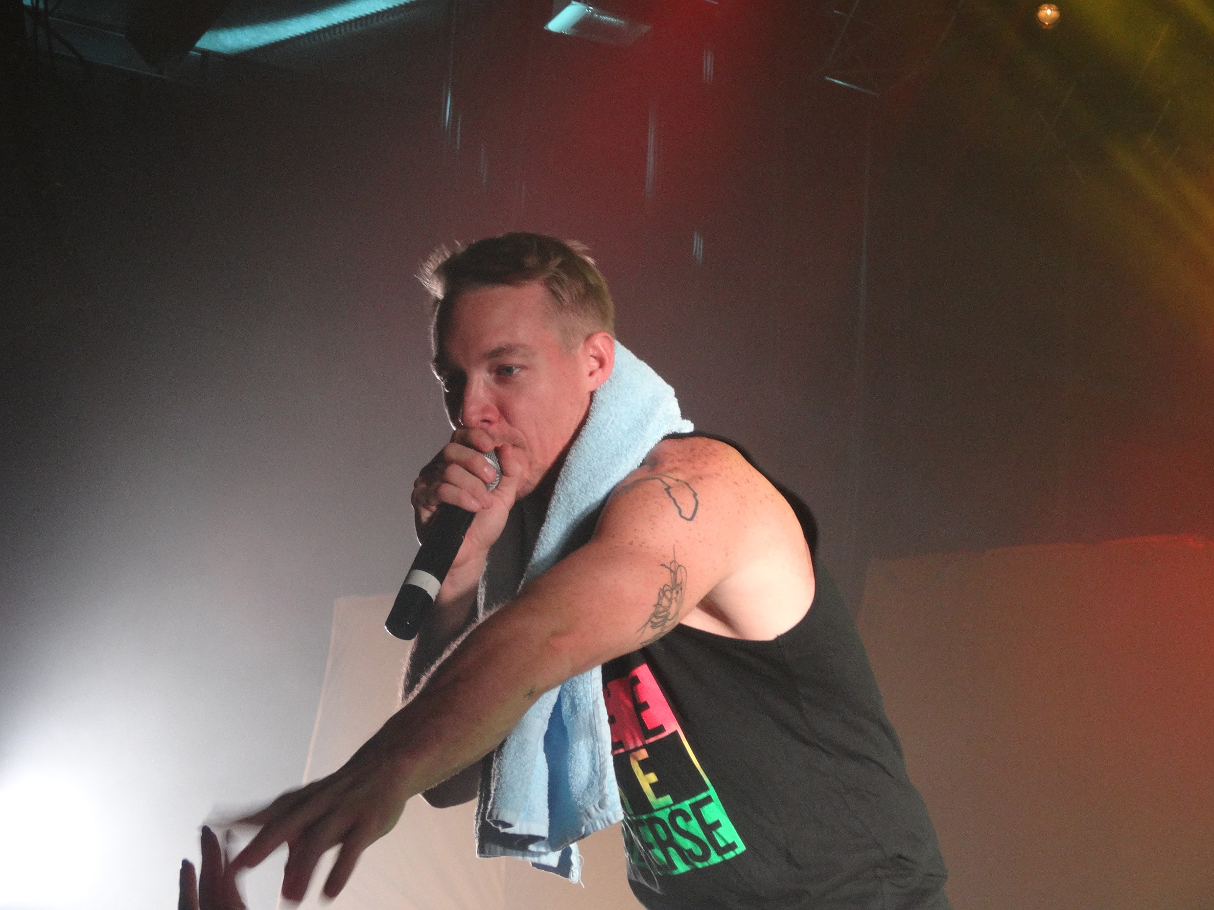 live at the rockhal with majorlazer